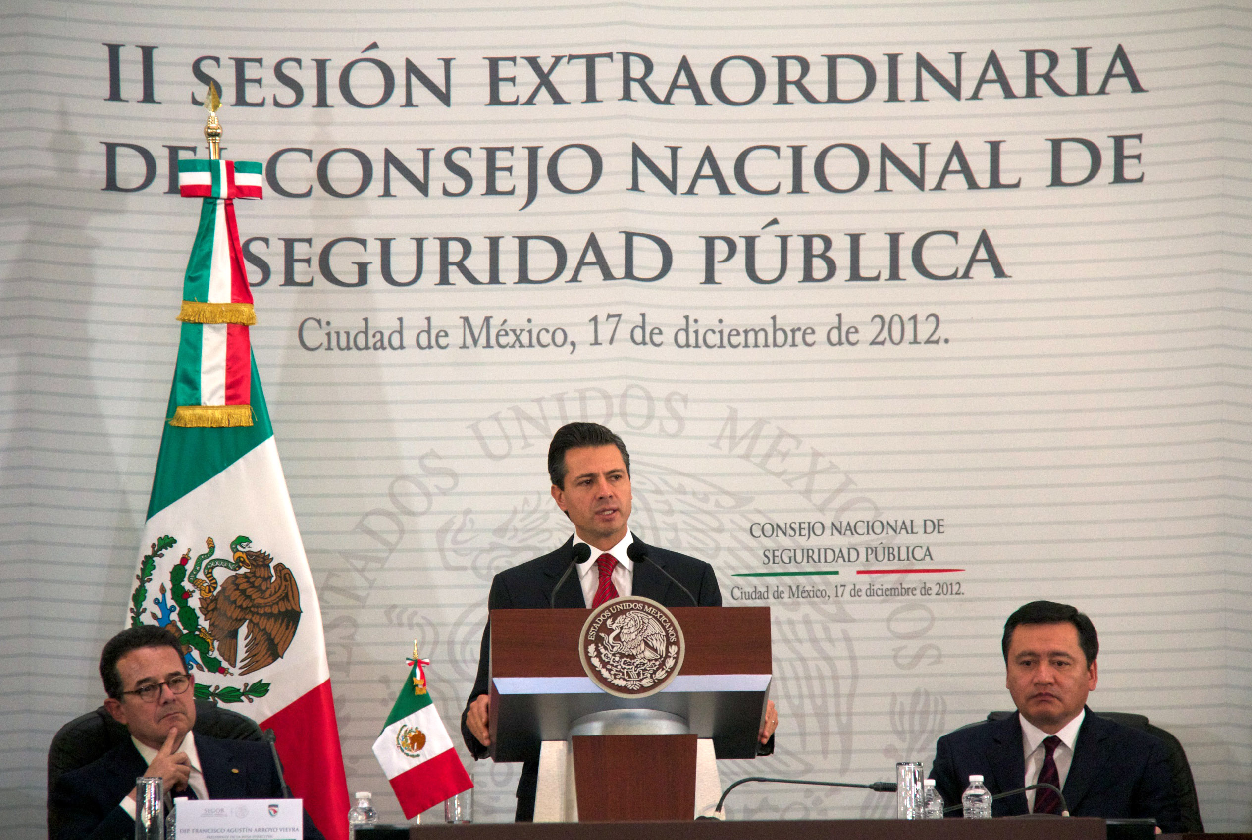 Enrique Peña Nieto in second extraordinary session of the public security national cabinet.